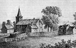 John West’s first_Church and School at Kildonan in Manitoba - Sketch from A Journal of the Reverend John West (1827)